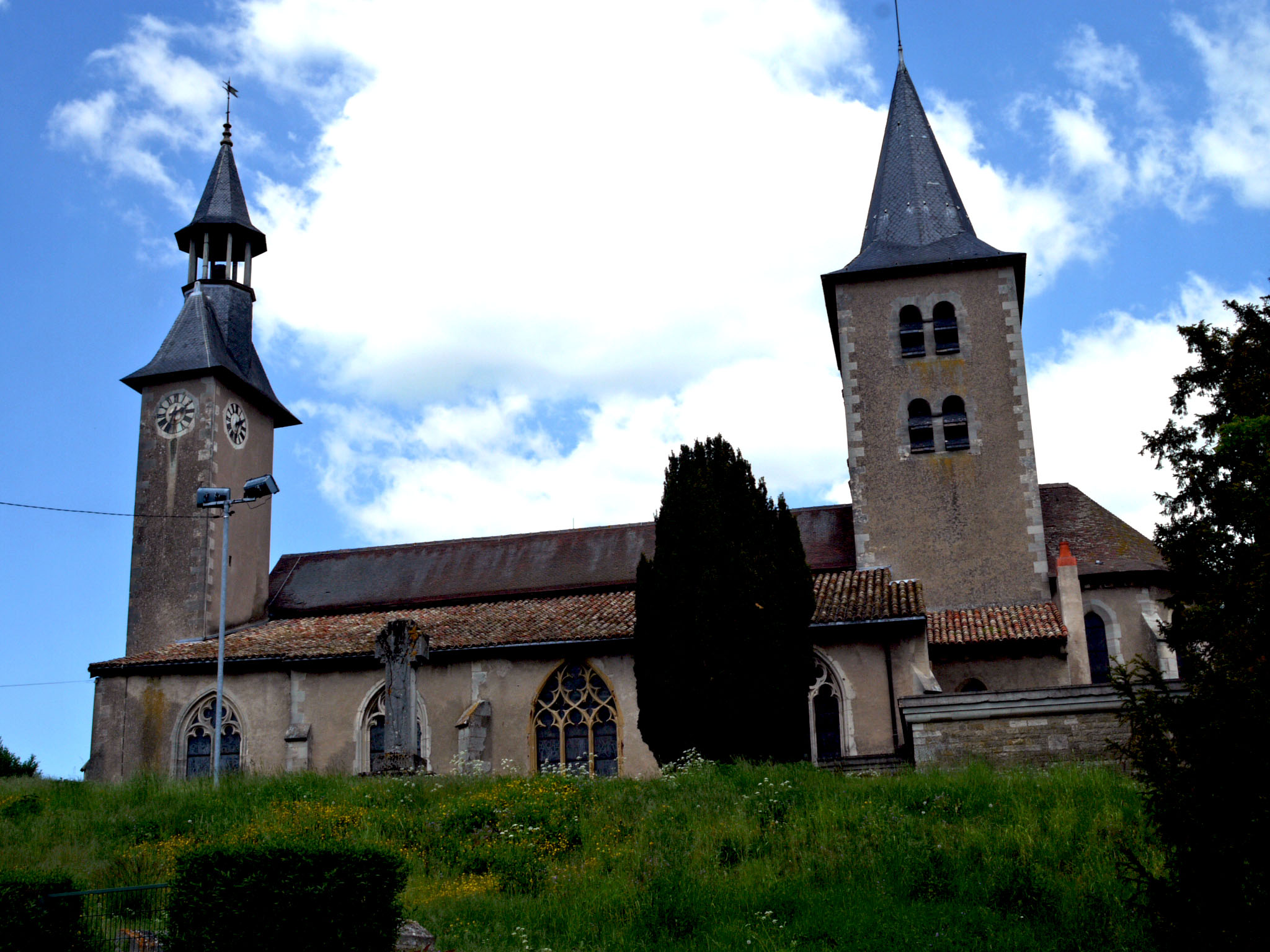 Nomeny, Lorraine region, France. Church Saint-Étienne.